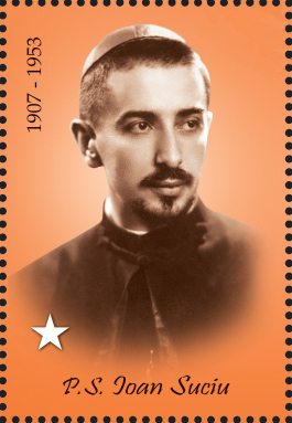 Martyr Bishops in the Order of Saints